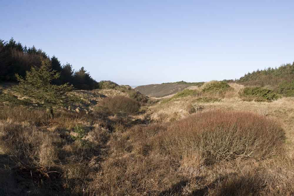 Tornby Klitplantage, plantation in the northern part of Denmark.